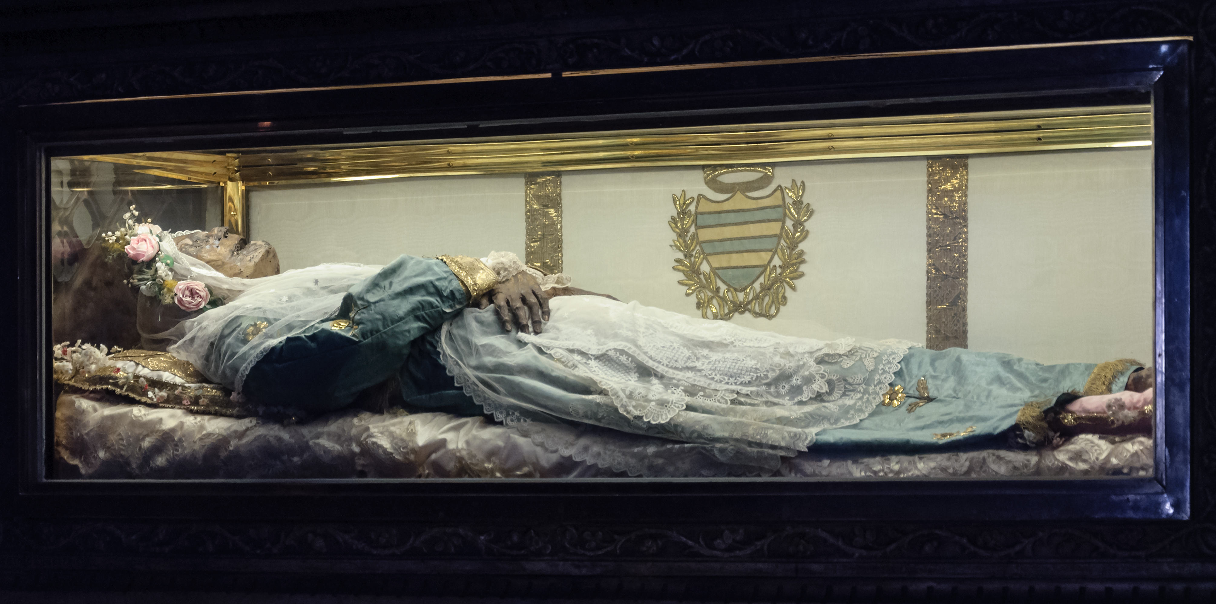 The mummified body of Saint Zita in its reliquary on display in the basilica of San Frediano in Lucca, Tuscany, Italy.